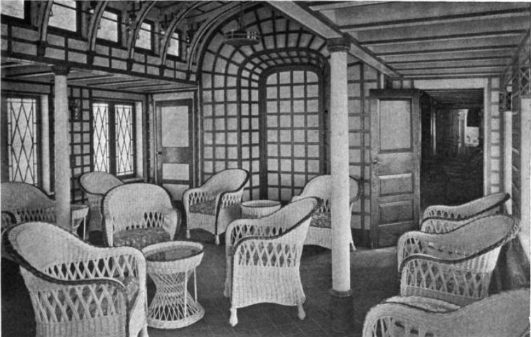 Veranda Café of the first turbo-electric passenger ship "Cuba" in service 1920.